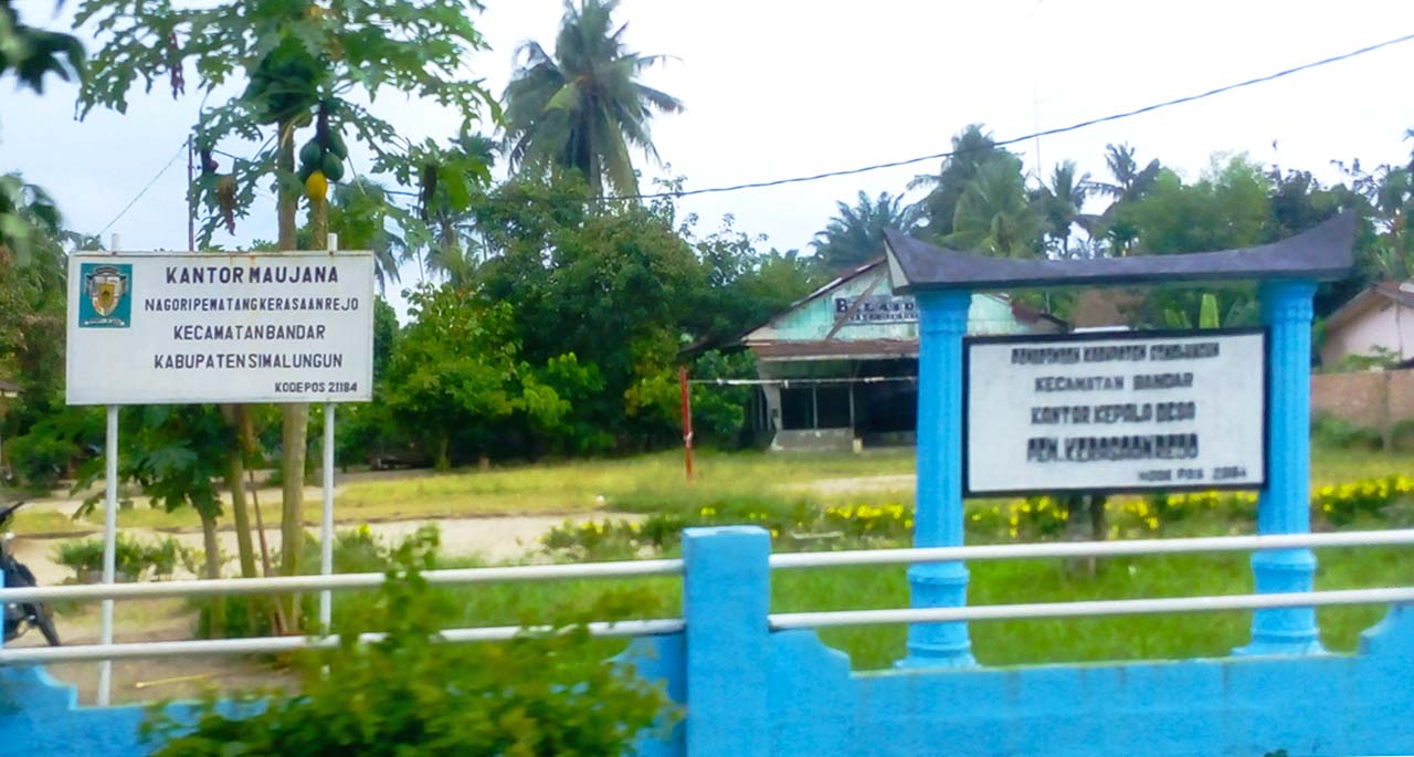 Office of Pematang Kerasaan Rejo, Bandar, Simalungun